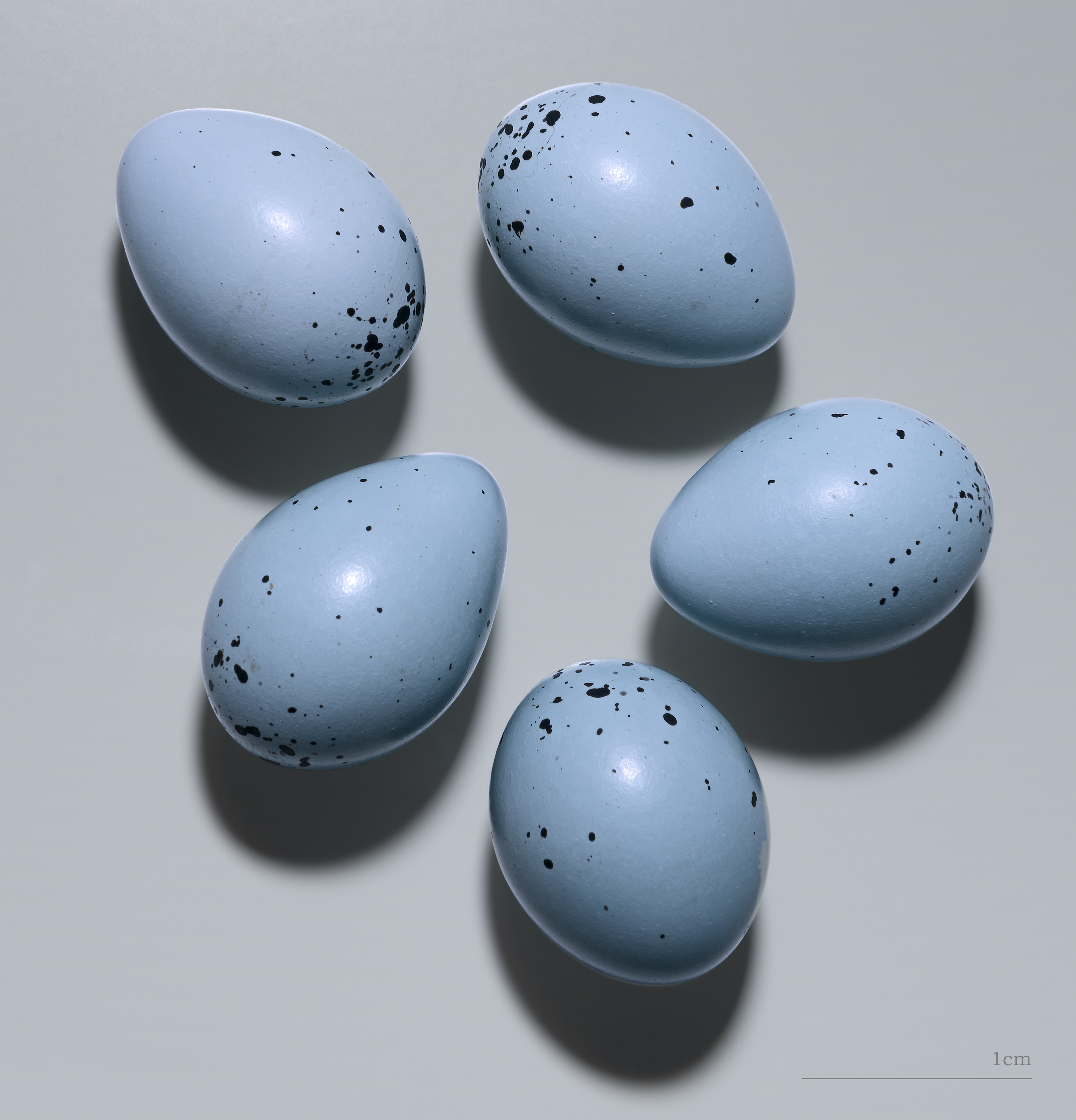 Egg of Song thrush. Collection of Jacques Perrin de Brichambaut